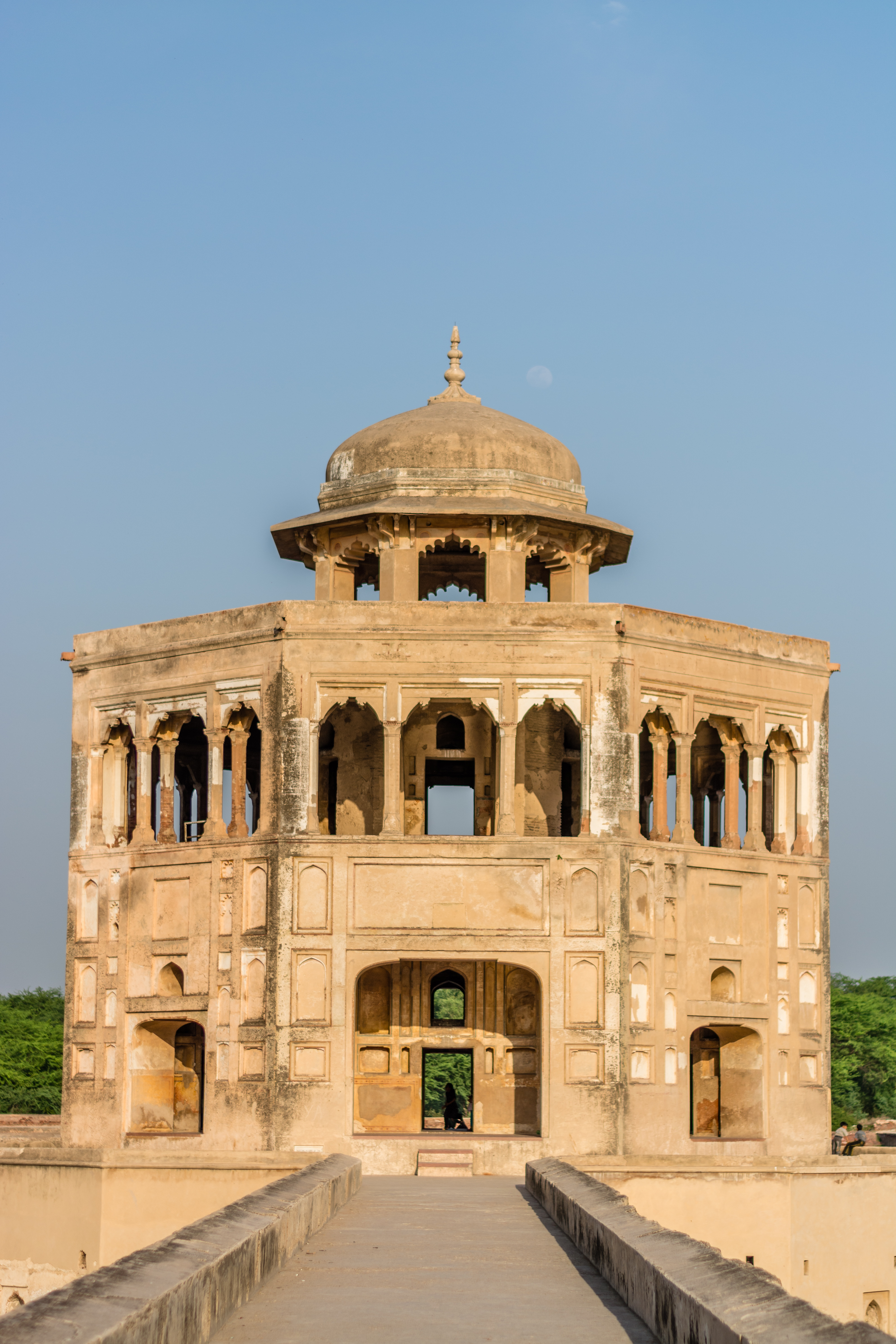 Hiran Minar and Tank This is a photo of a monument in Pakistan identified as the PB-145